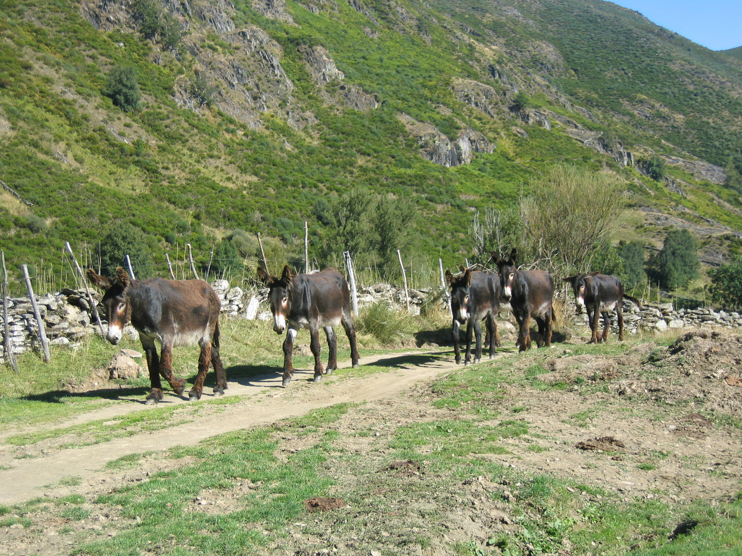 Donkeys near Montrondo (Leon), Spain